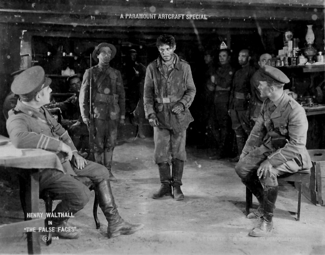 Henry B. Walthall (center) in The False Faces (1919) - publicity still